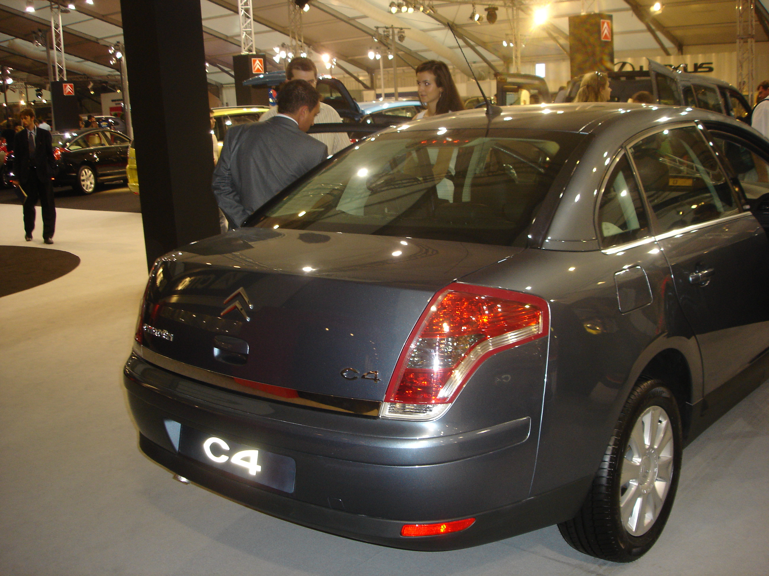 Citroën C4 Sedane at SIAB 2007, Bucharest, Romania.